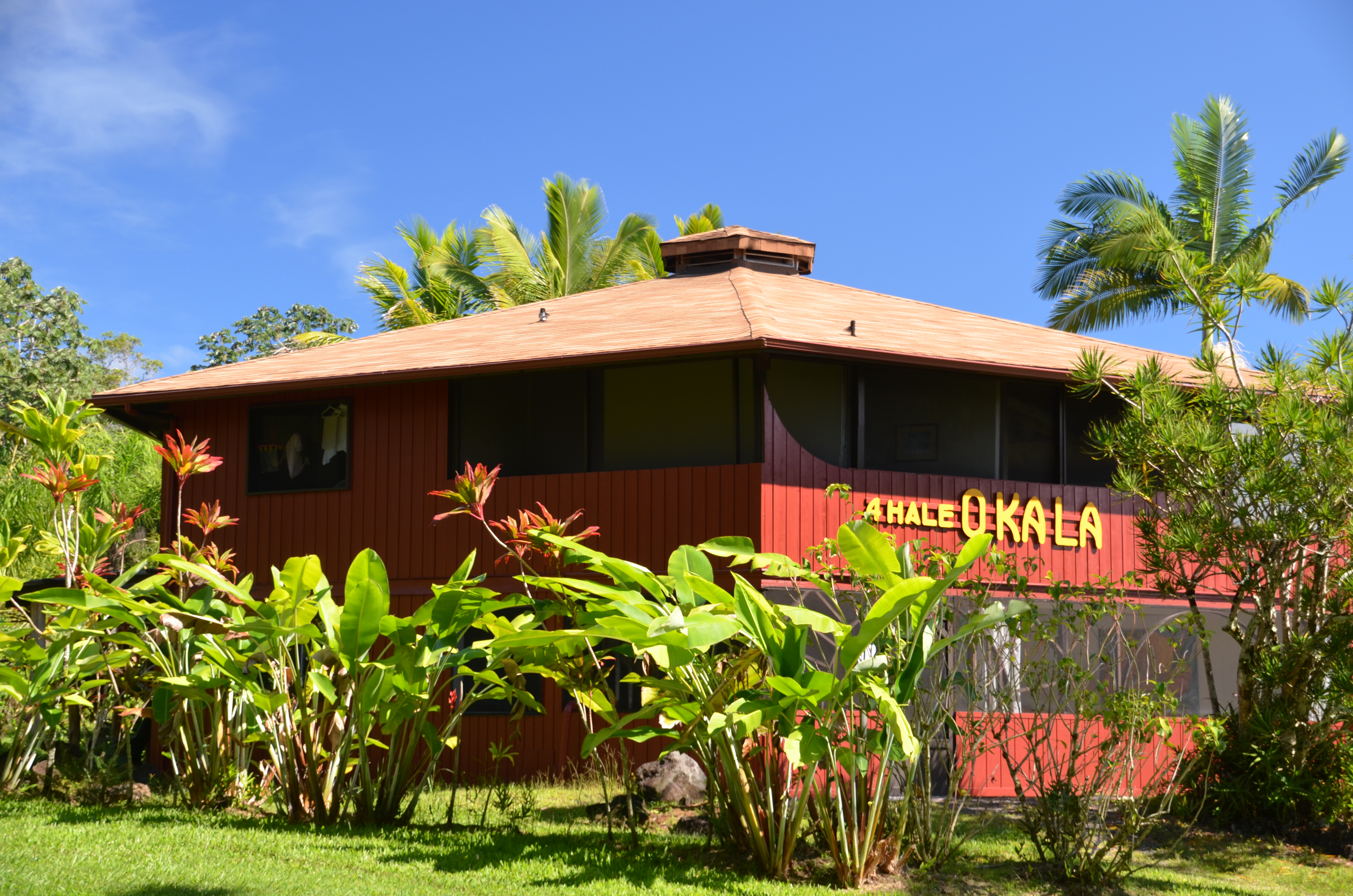 Hale (Hawaiian: house): accommodation for guests and groups